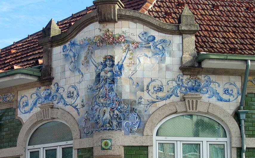 Azulejo in Oporto, Portugal